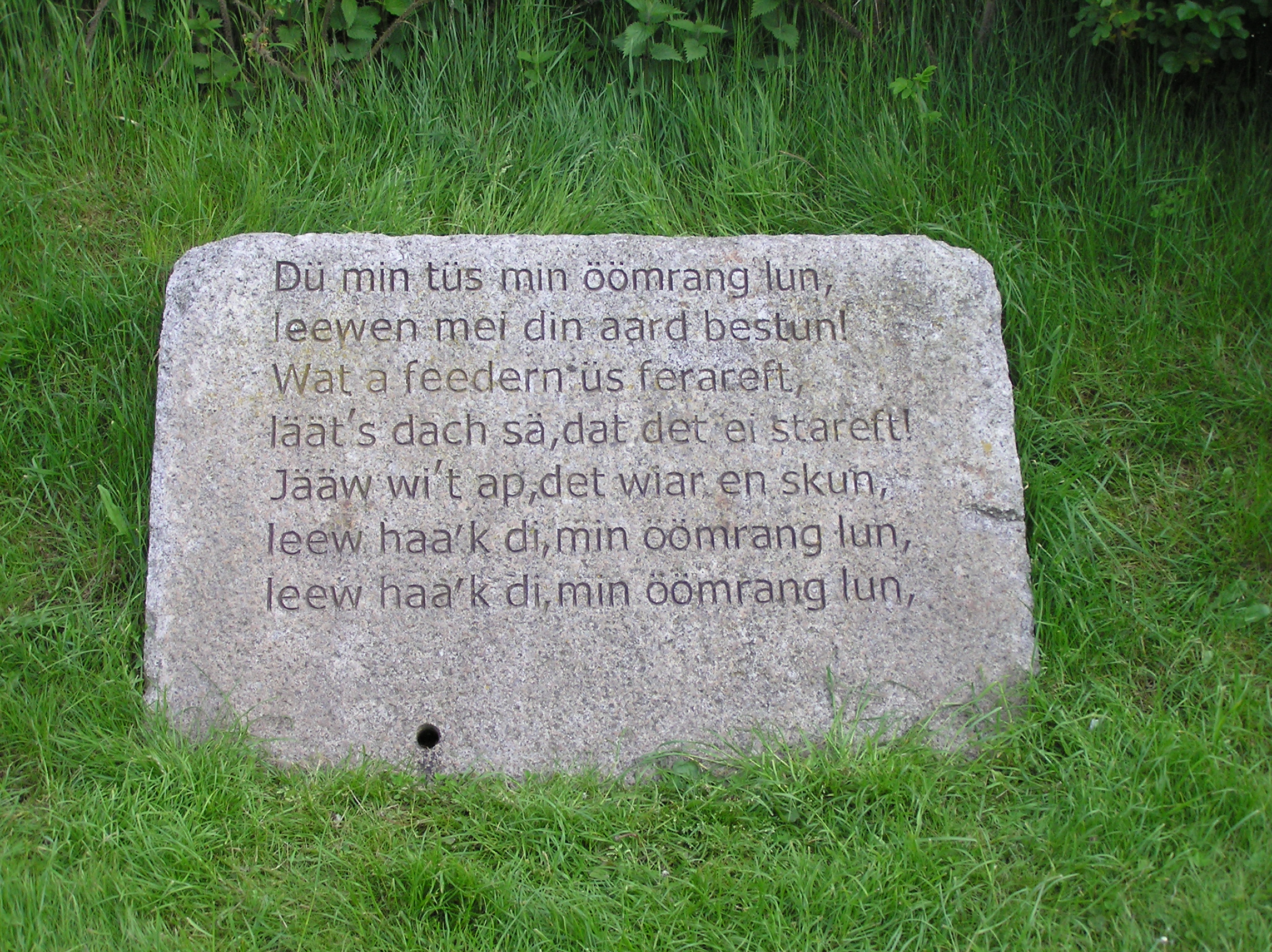 Memorial stone in Öömrang on the island of Amrum in the German region of North Frisia